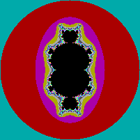 Complex recursive fractal, power 3